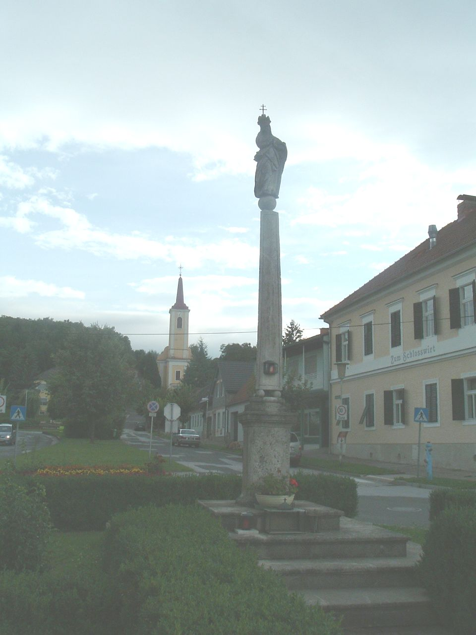 Rotenturm an der Pinka (Vasvörösvár)